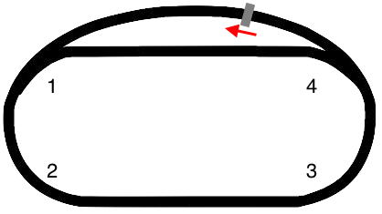 Map of Richmond International Raceway Mapa do Richmond Internacional Speedway